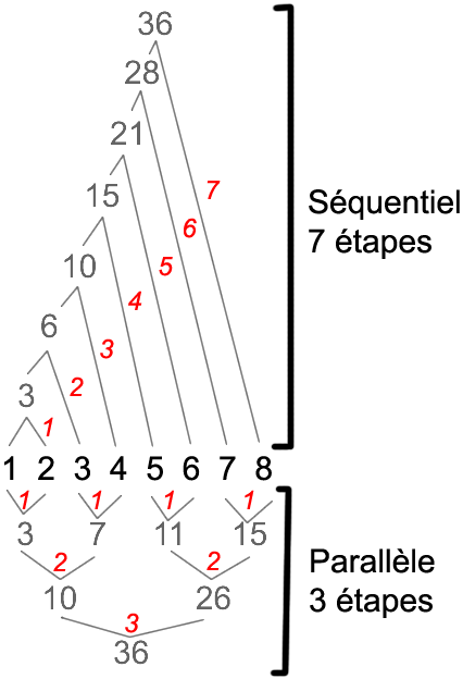 Adding 8 numbers in sequential or parallel manner.